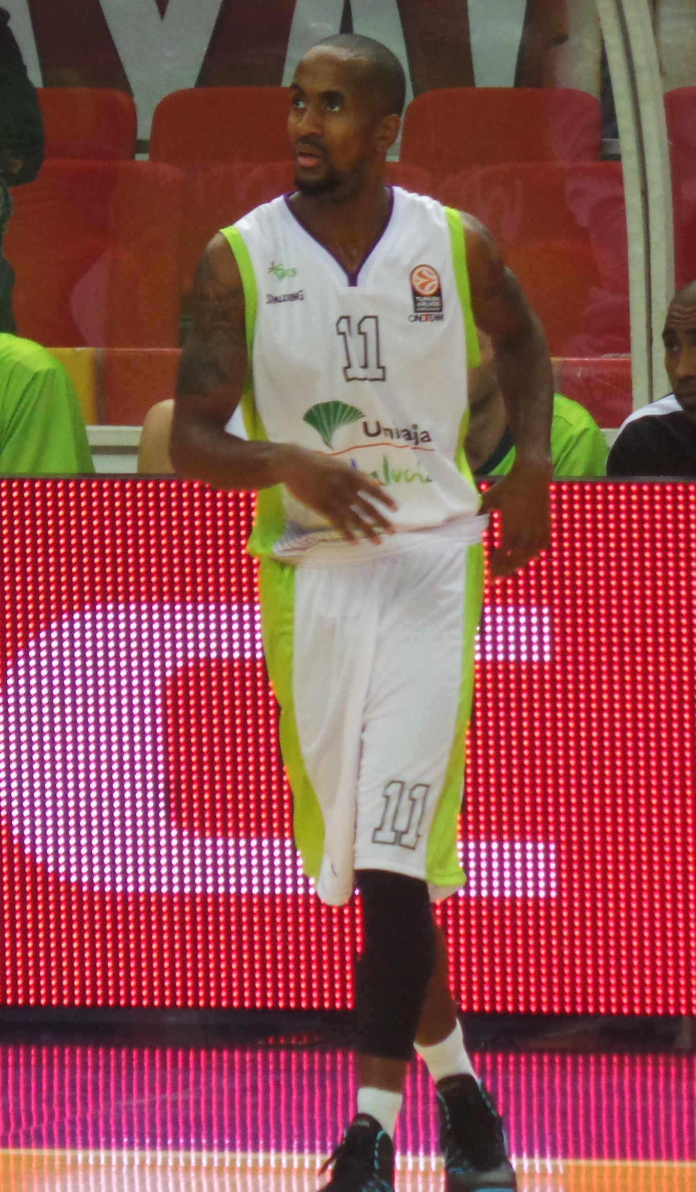 Earl Calloway